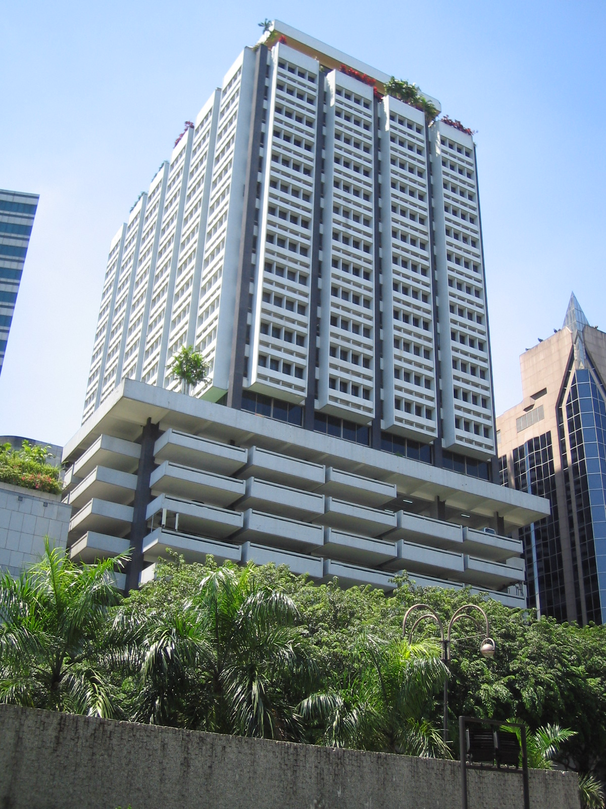 Shaw Centre.